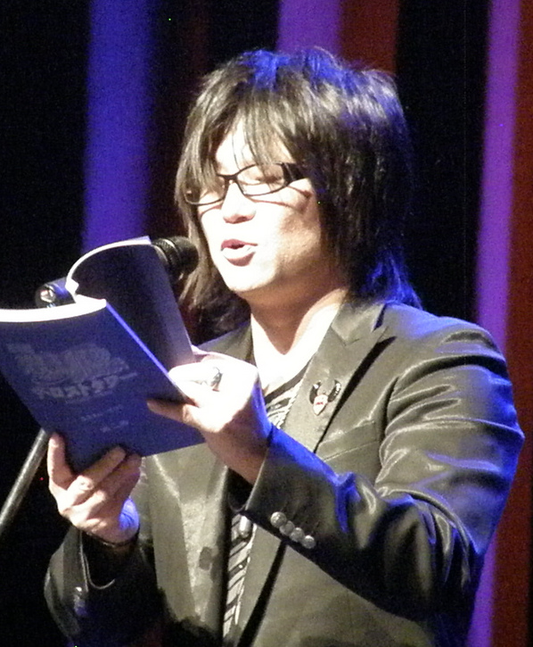 Toshiyuki Morikawa actually dubbed some Japanese Naruto LIVE...or so they said. It seemed off, but that could've been from the huge tv monitor delays.